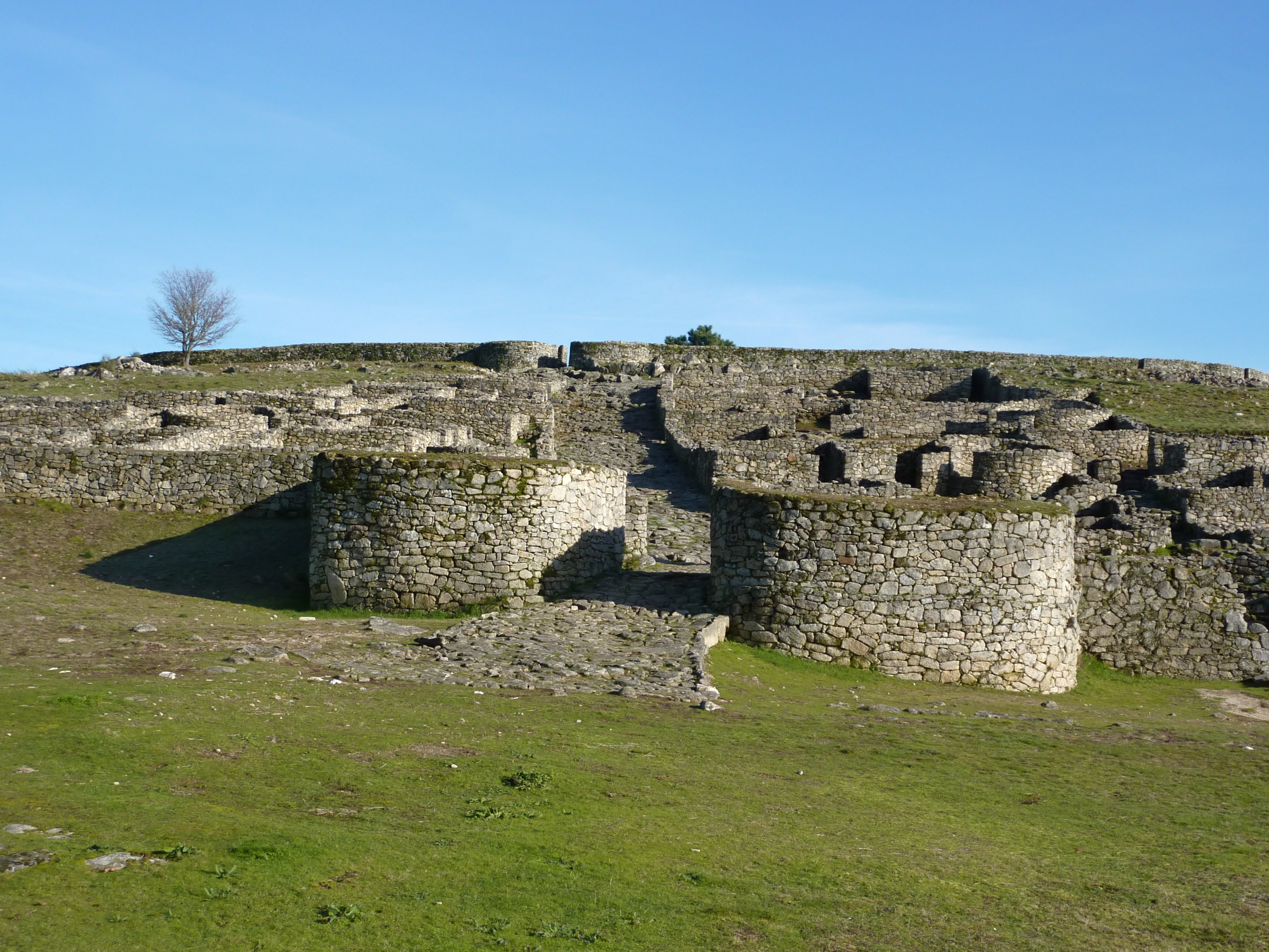 Walls of the oppidum of Lanobri or Lansbri, San Cibrao de Lás, Galicia.